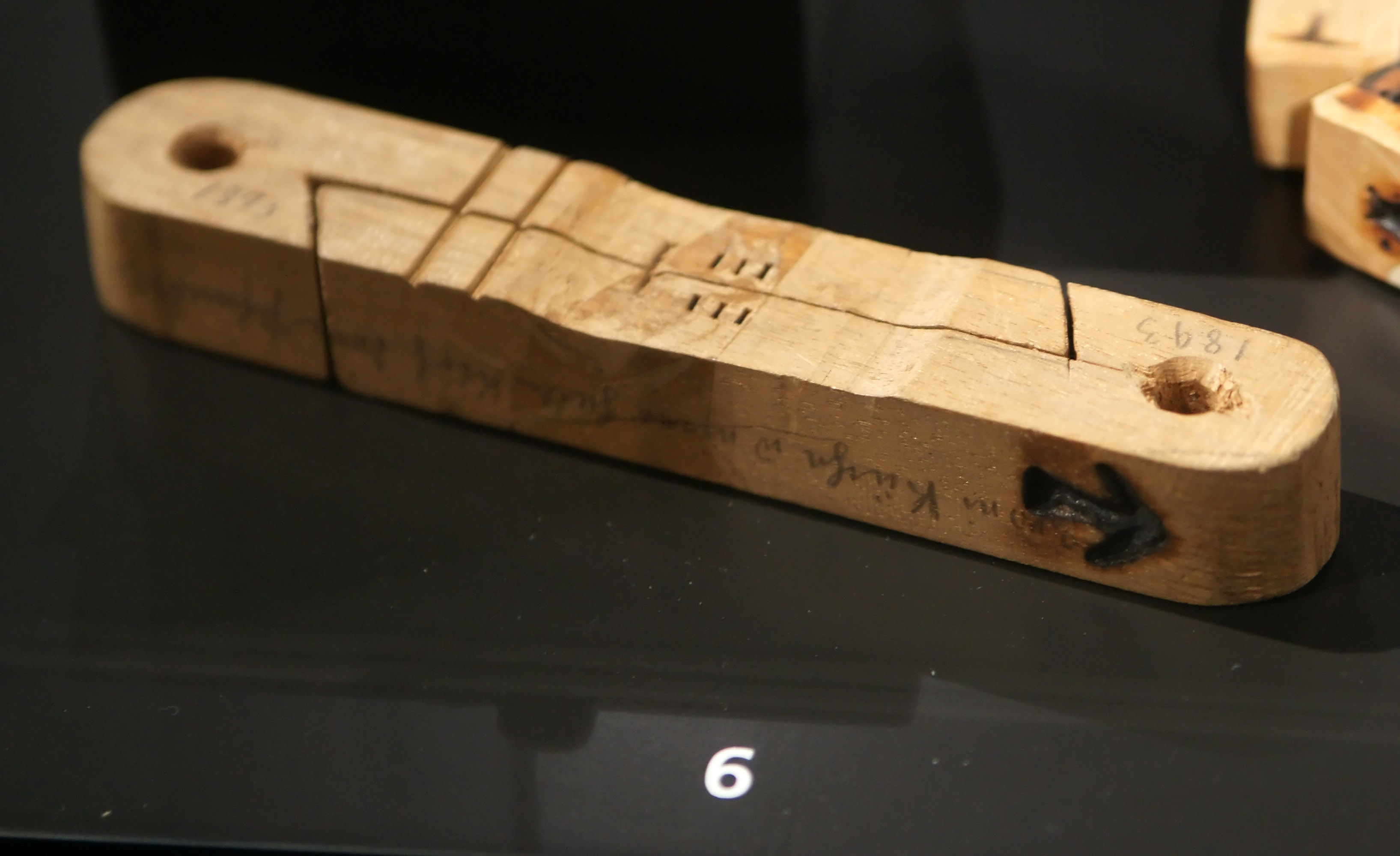 Tally sticks from the Swiss Alps: Double tessel from Alp Blümatt (Turtmann VS), 1893